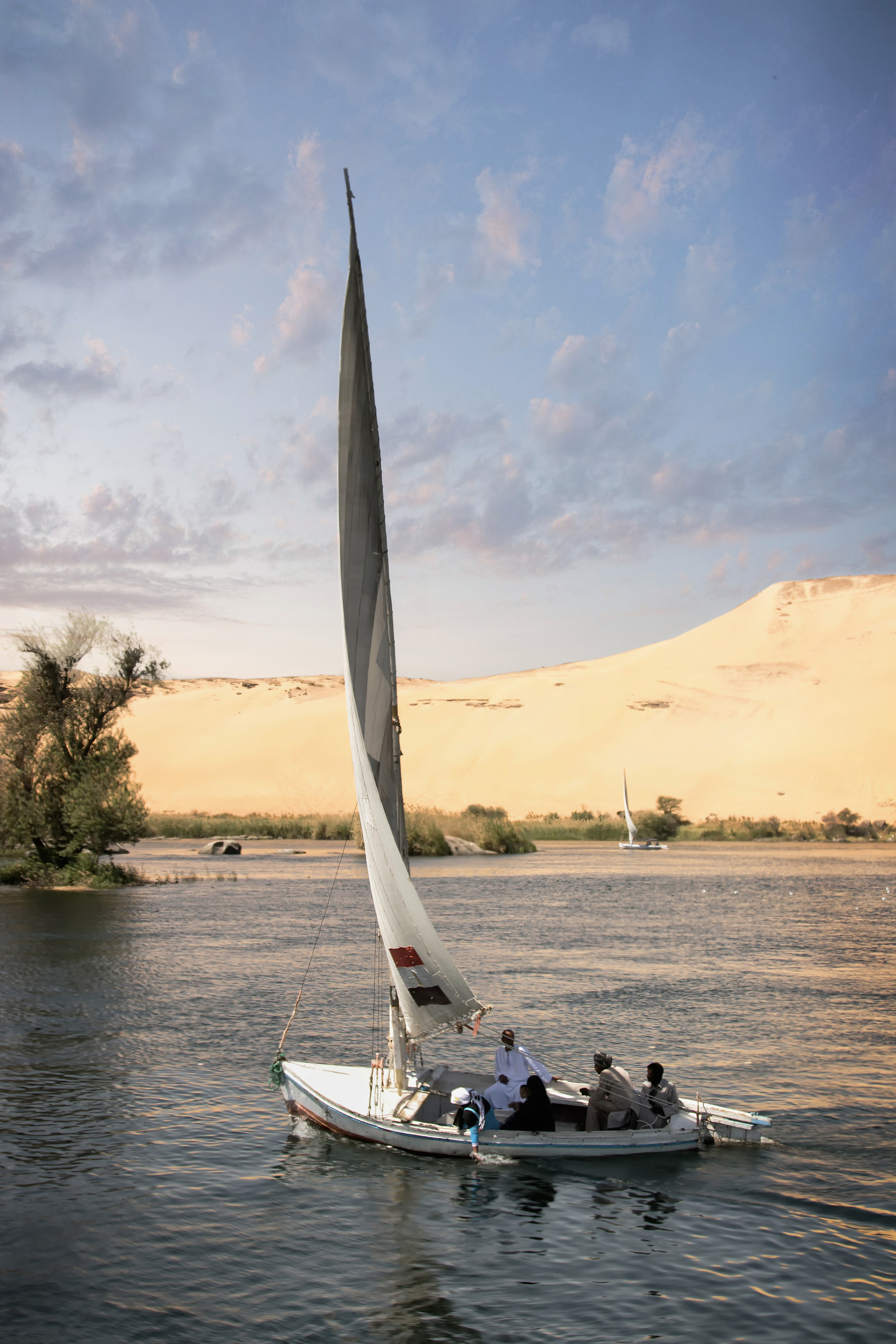 Feluccas... Egypt's Traditional Sailboats - Aswan - Egypt This is an image with the theme "Africa on the Move or Transport" from: Egypt